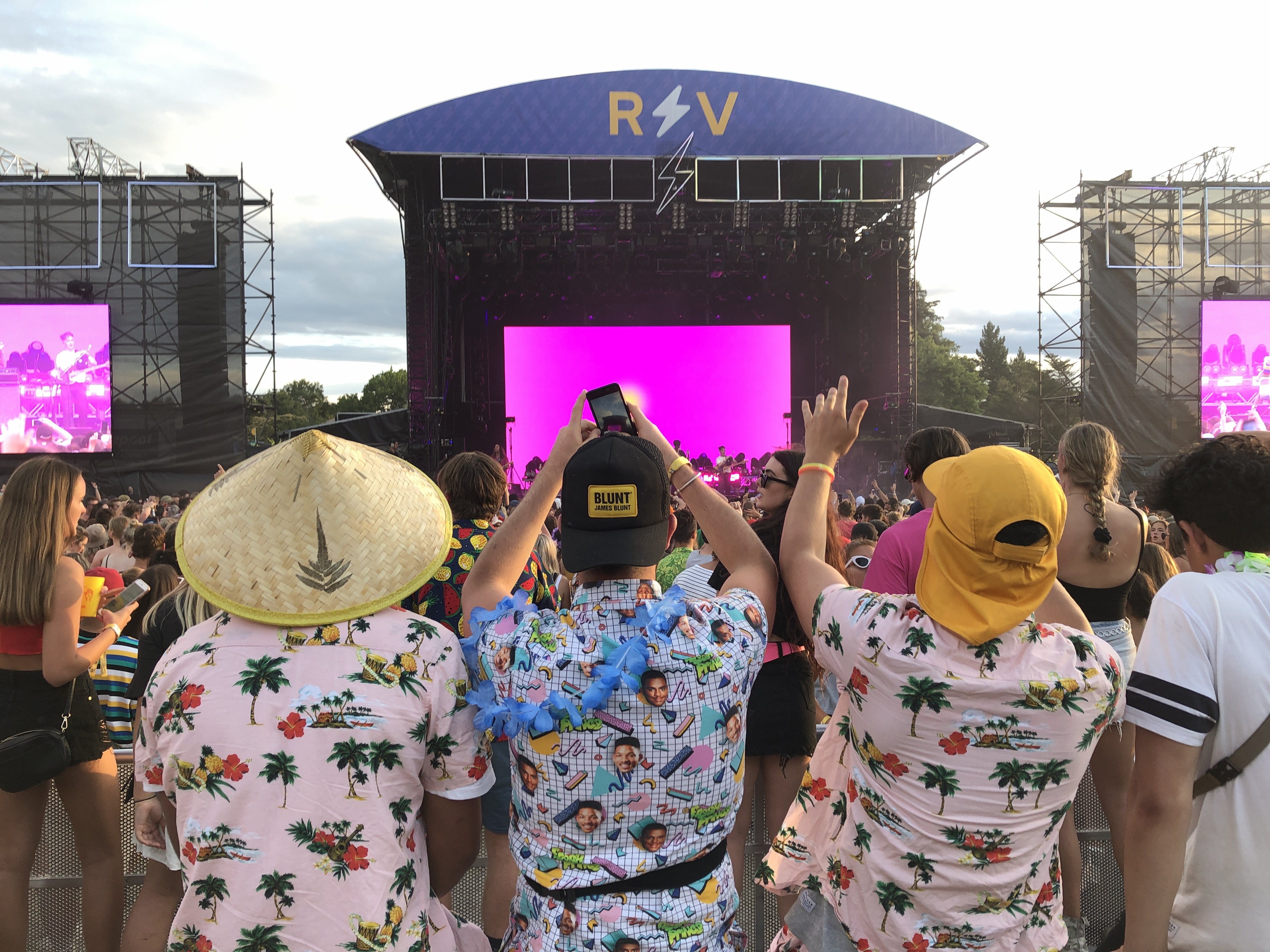 Festival-goers at the main stage of Rhythm & Vines in 2018.